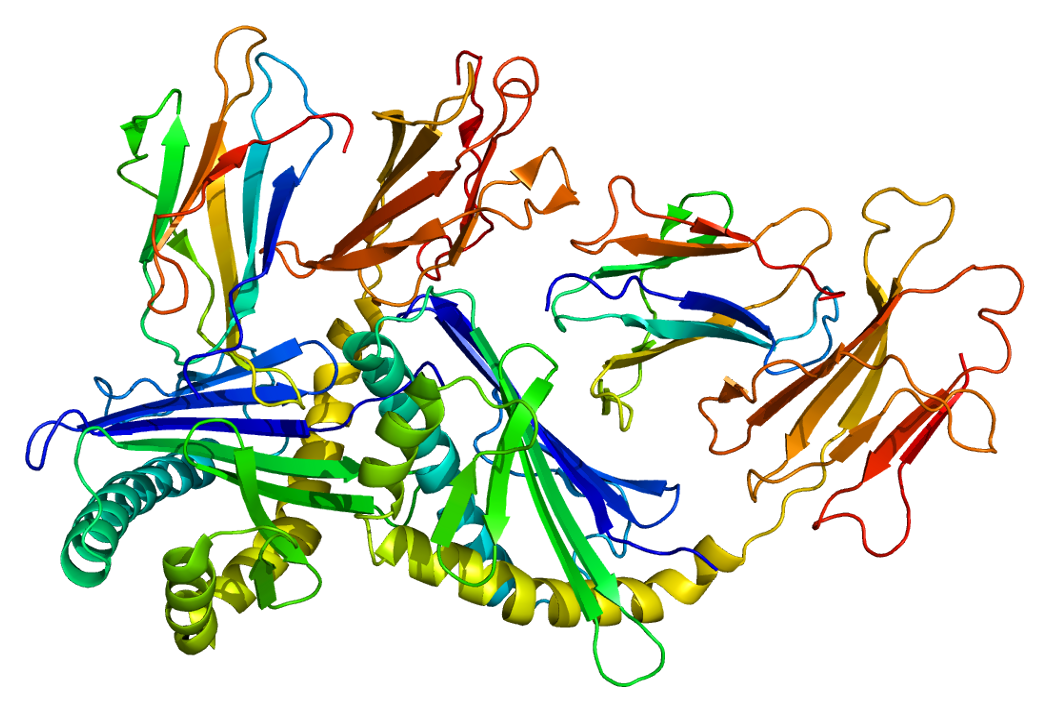 Structure of the CD1D protein. Based on PyMOL rendering of PDB 1zt4.